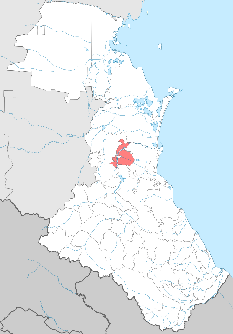 Kizilyurtovskiy rayon Dagestan